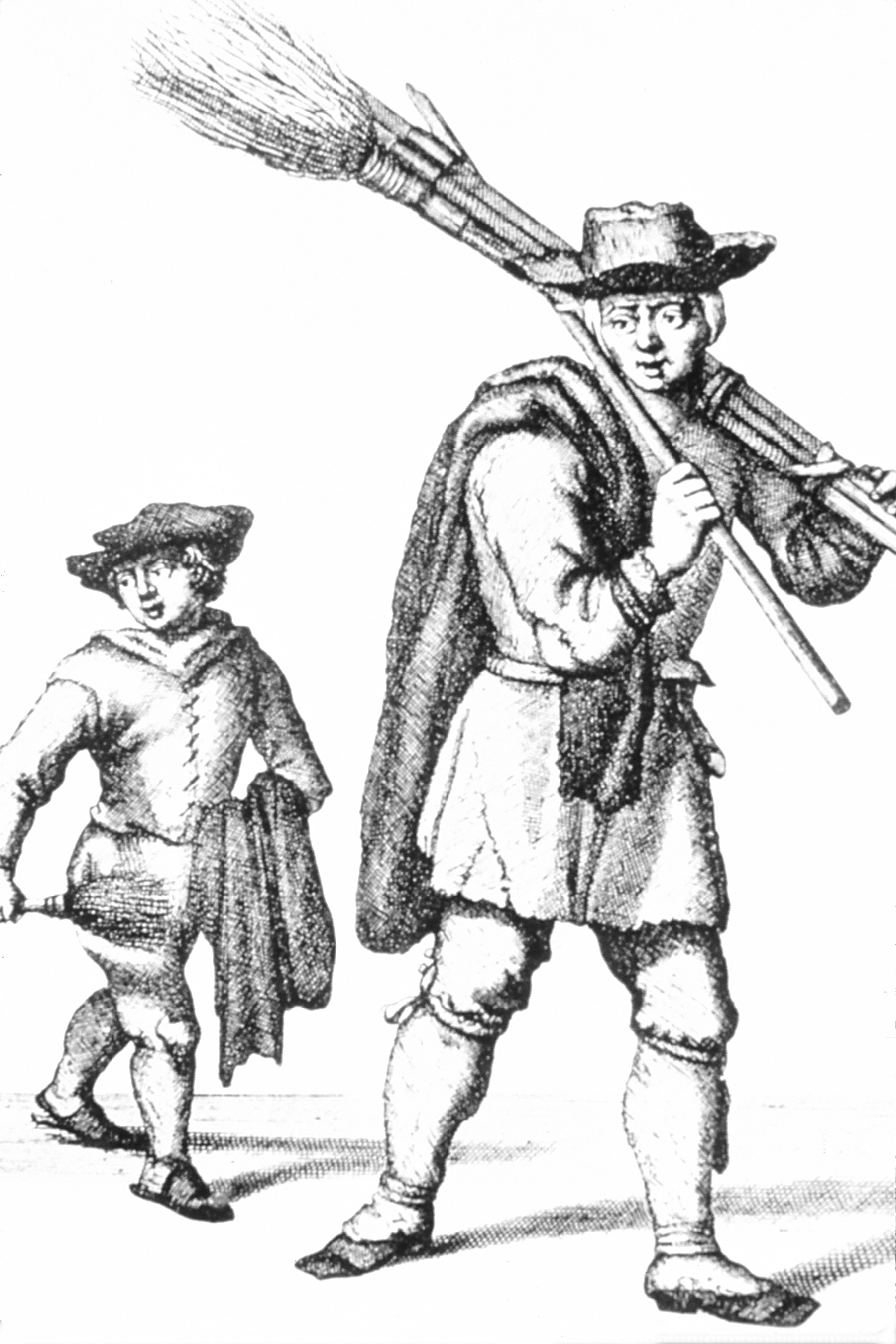 Title Chimney Sweeps Description An eighteenth century drawing of some chimney sweeps. They were seen as one of the earliest cases of occupational cancer, as observed in 1770 by Percival Pott. Topics/Categories Historical, Graphics Type B&W, Illustration Source National Cancer Institute